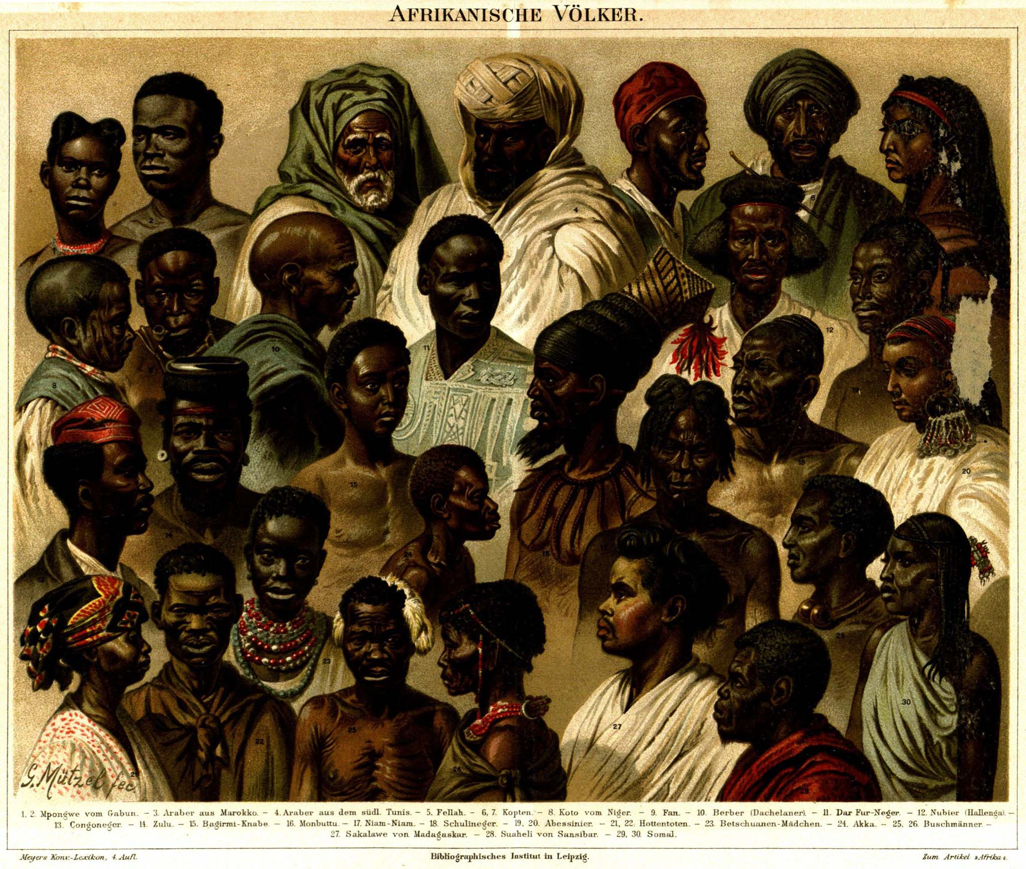 Meyers Konversationslexikon — Vol. 1 — plate to page 148 — African peoples